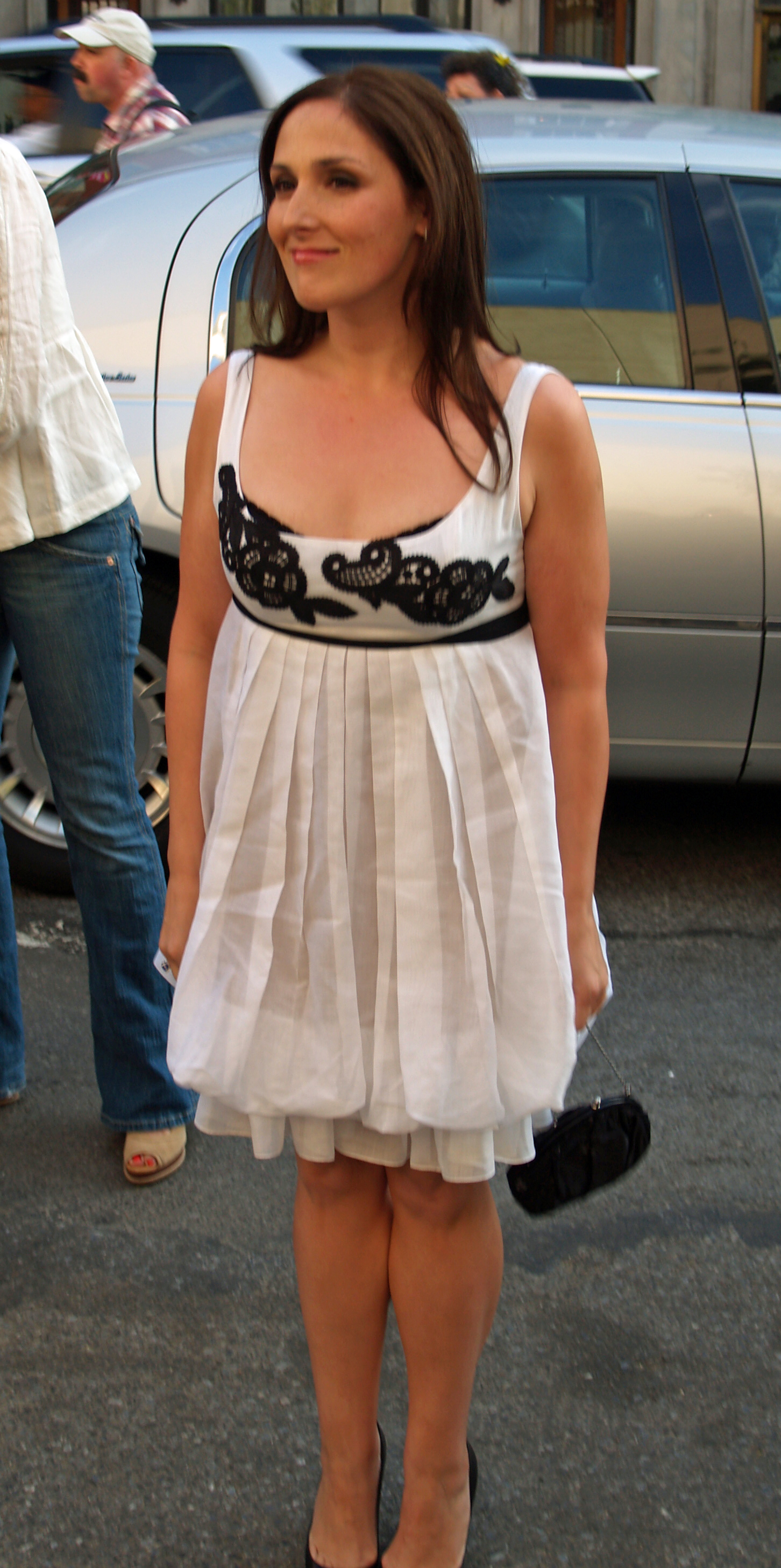 Ricki Lake at "Business of Being Born" premiere